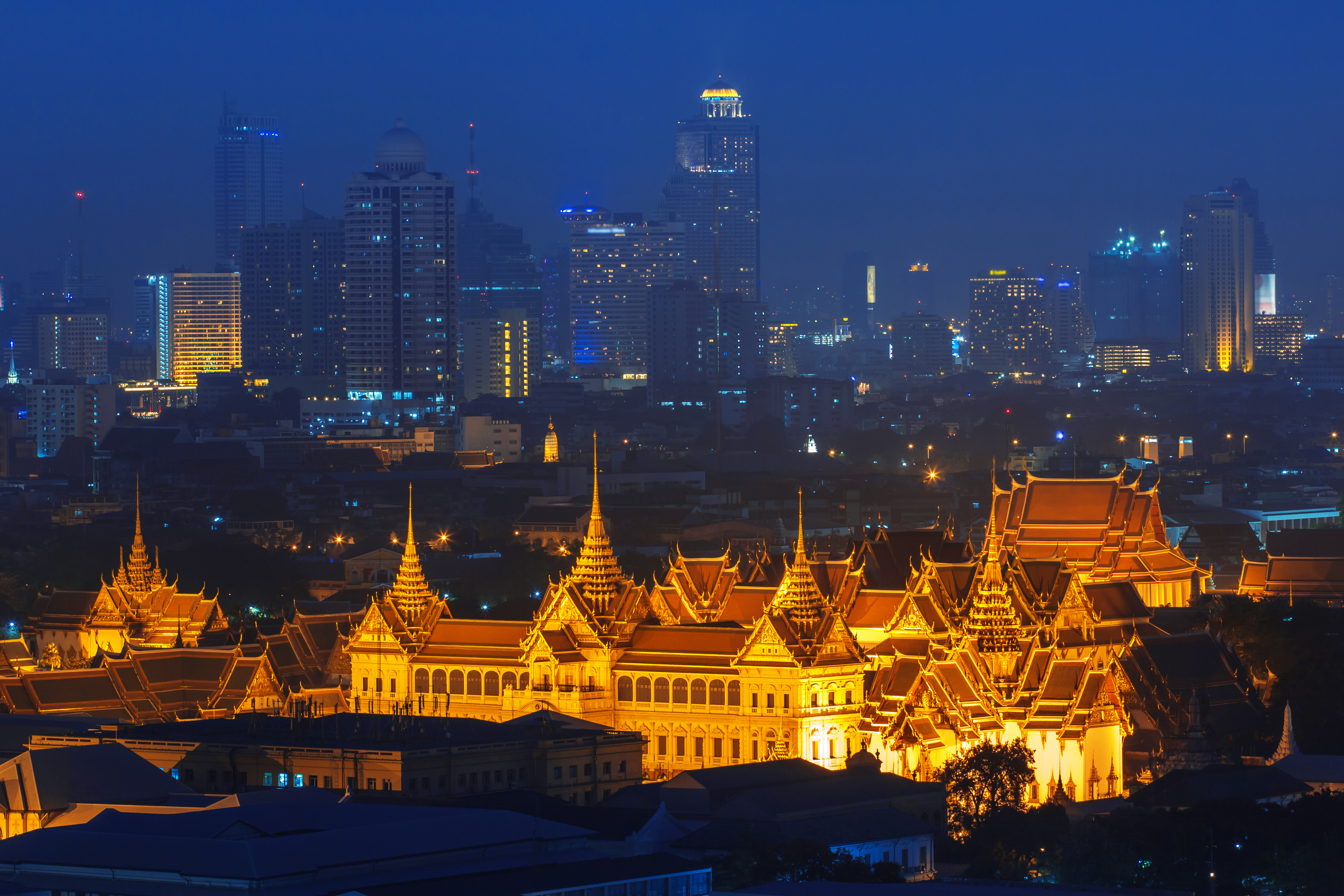 Grand Palace And the Emerald Buddha Temple